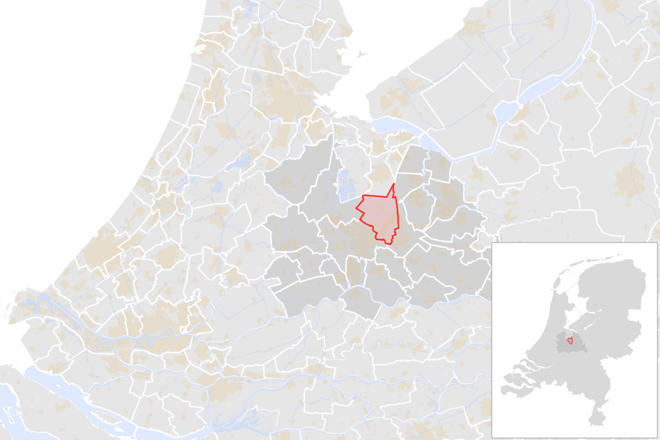 Locator map showing municipality boundary of one of the 390 Dutch municipalities (as of 2016)